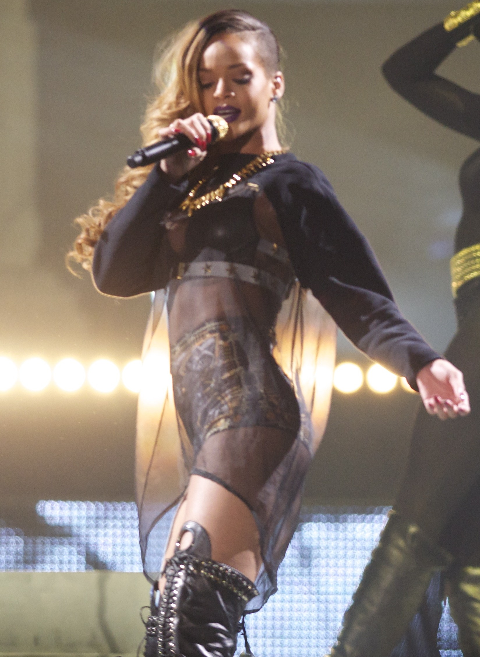 Rihanna performing Diamonds World Tour at the Xcel Energy Center, 24 March 2013.